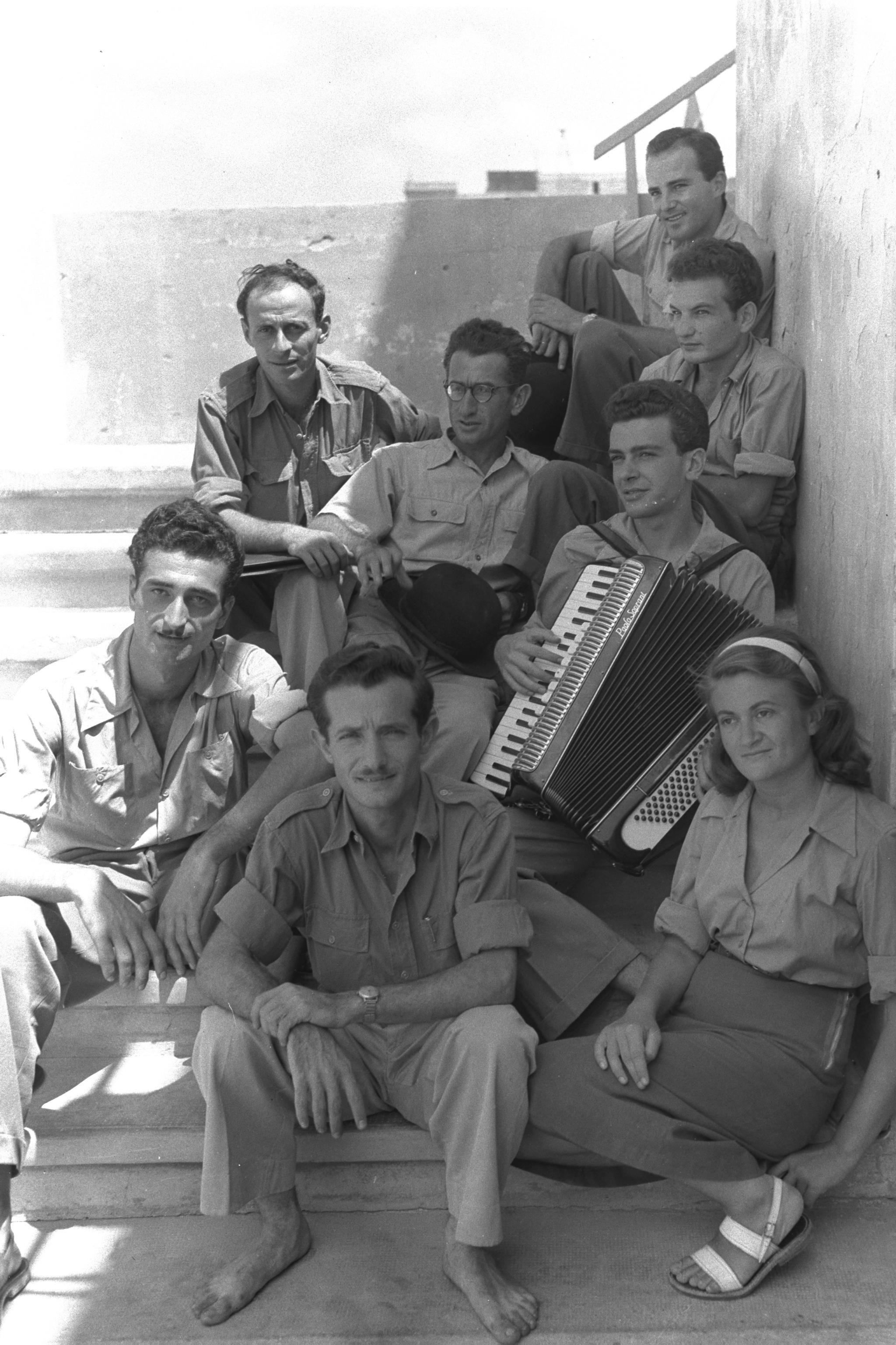 The CHIZBATRON was formed by PALMACH members, and was the official army entertainment troupe.